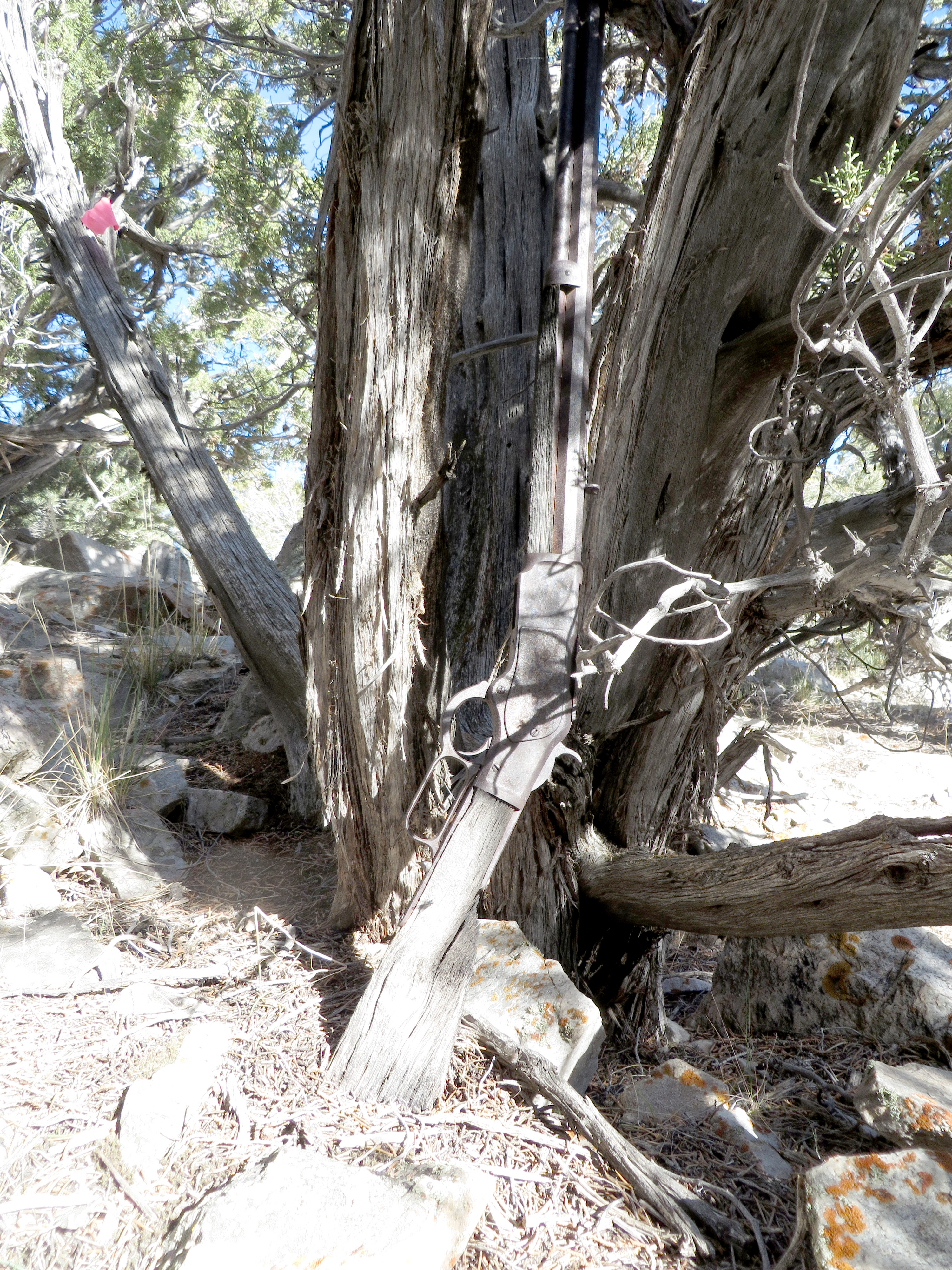 Photograph of an 1882 winchester rifle discovered in 2014 leaning against a tree in great basin national park, commonly known as the Forgotten Winchester